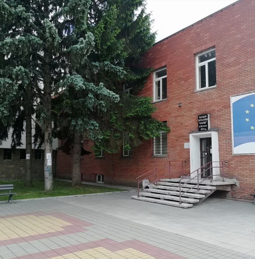 Culturehouse